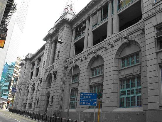 took at 26/2/2004 by KC Cheung 香港舊中區警署，來自英文維基